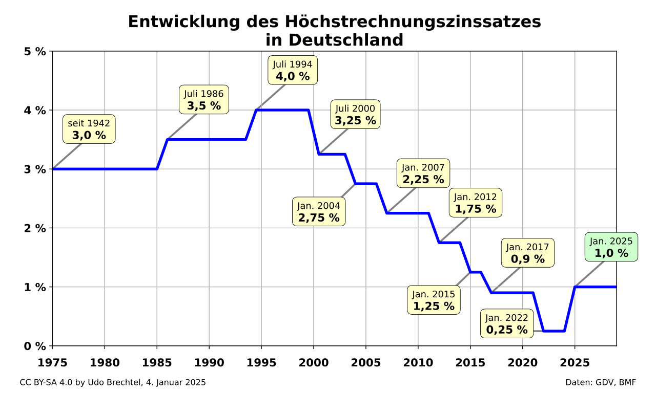 History of maximum interest rates of life insurance in Germany